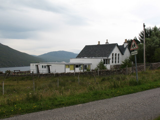 Badcaul School on the shores of Little Loch Broom, Scotland